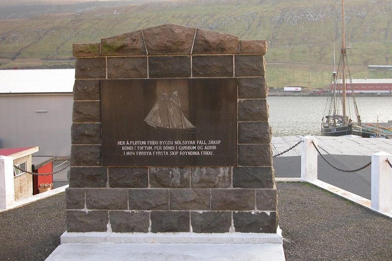 Memorial for the first faroese ship Royndin Frida in Vágur